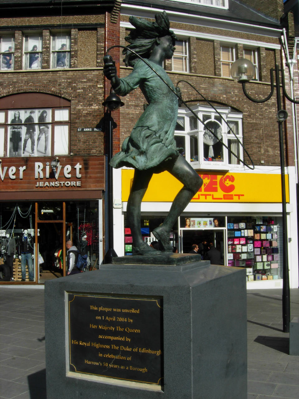 Skipping Katie